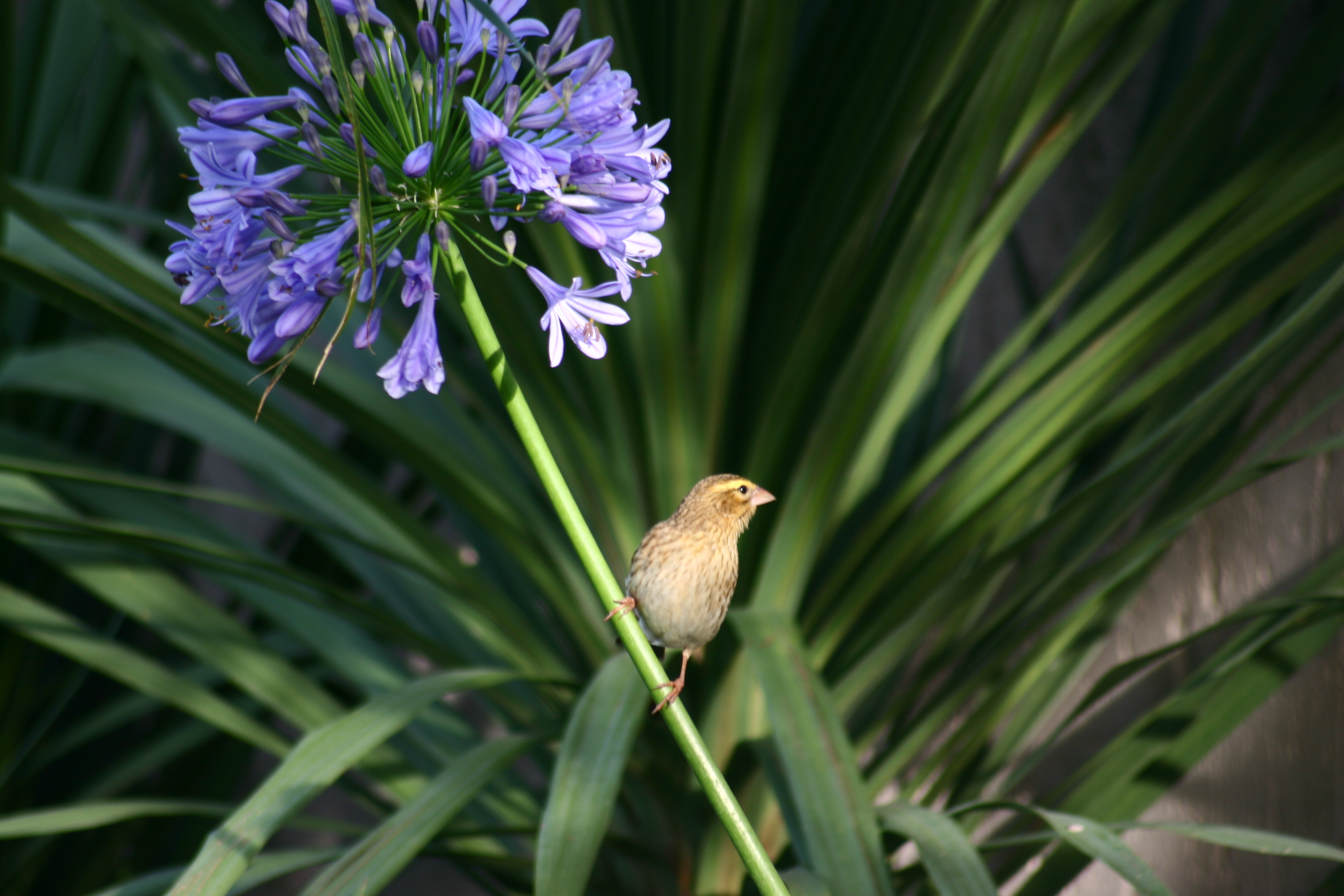 Female Southern Red Bishop (Euplectes orix). Compare to male in other photo.